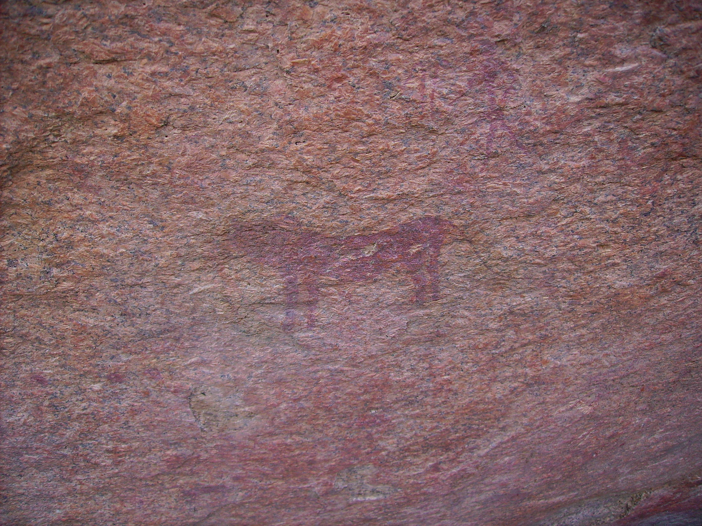 Bushmen's ancien painting (Spitzkoppe)